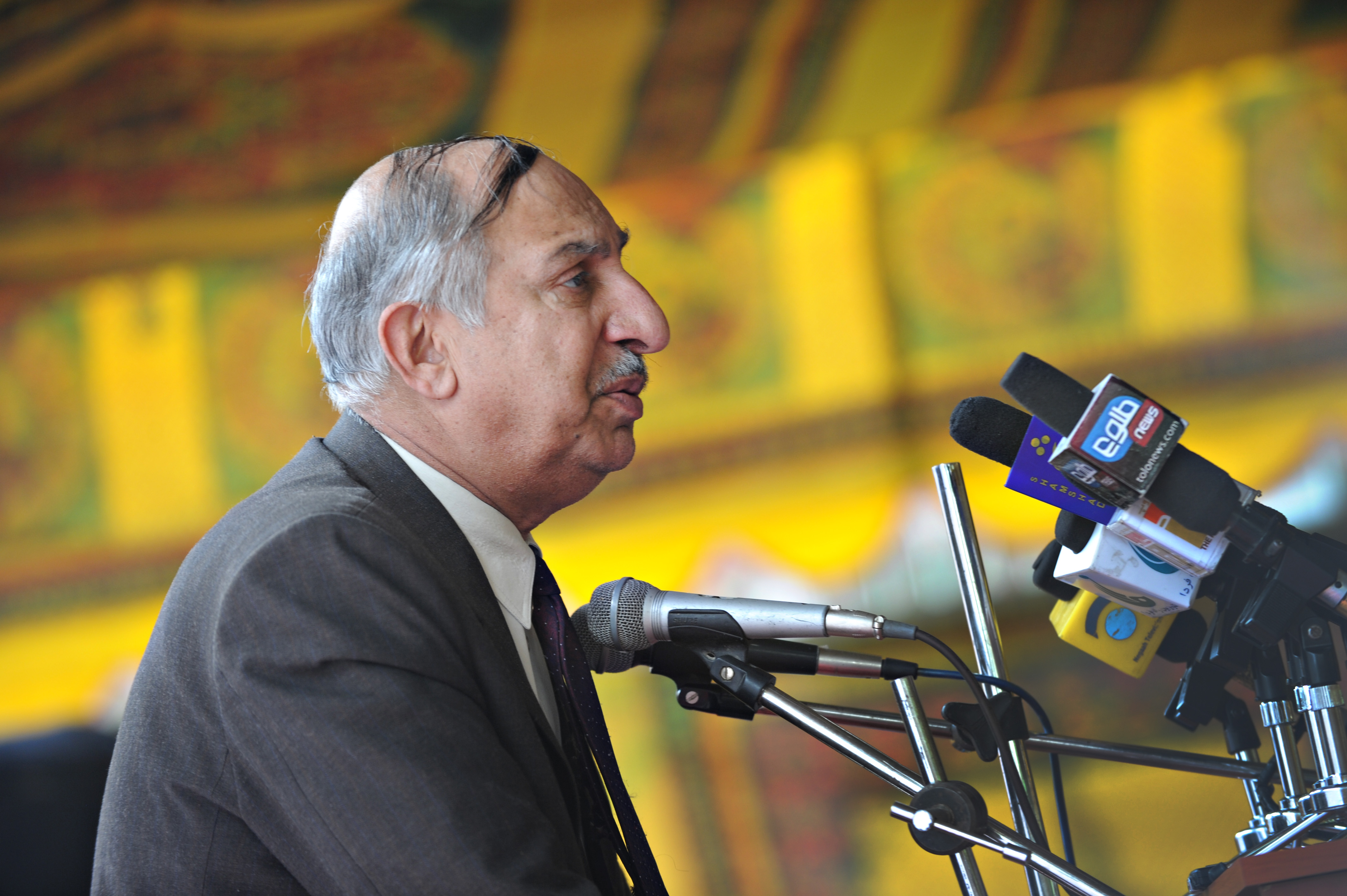 Deputy U.S. Ambassador E. Anthony Wayne attends the dedication of the USAID-funded Kabul University Renewable Energy Lab opening in Kabul, Afghanistan on Wednesday, May 4, 2011.